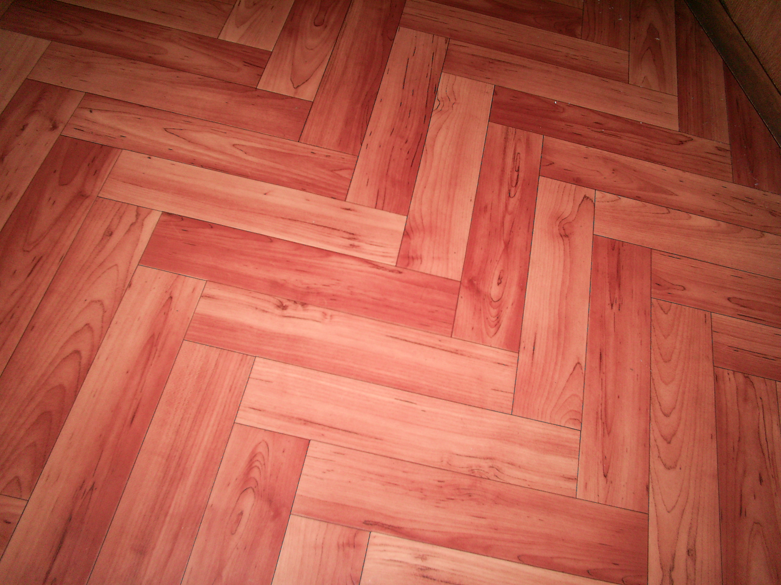 Linoleum "Oaken parquet"